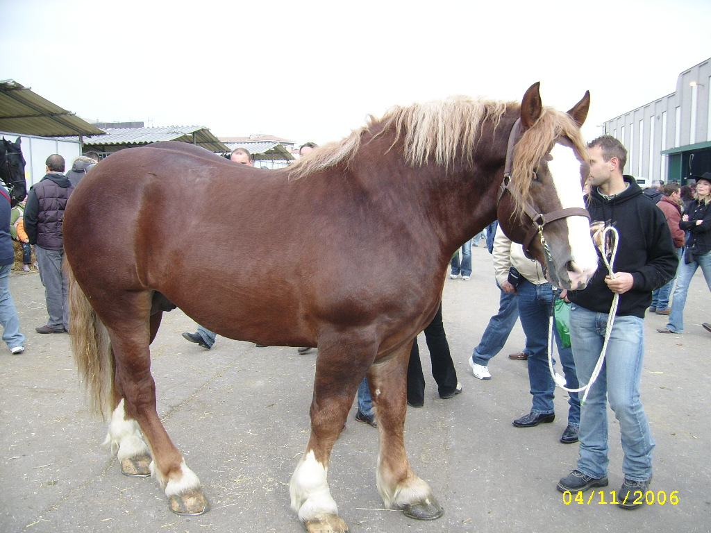 photo